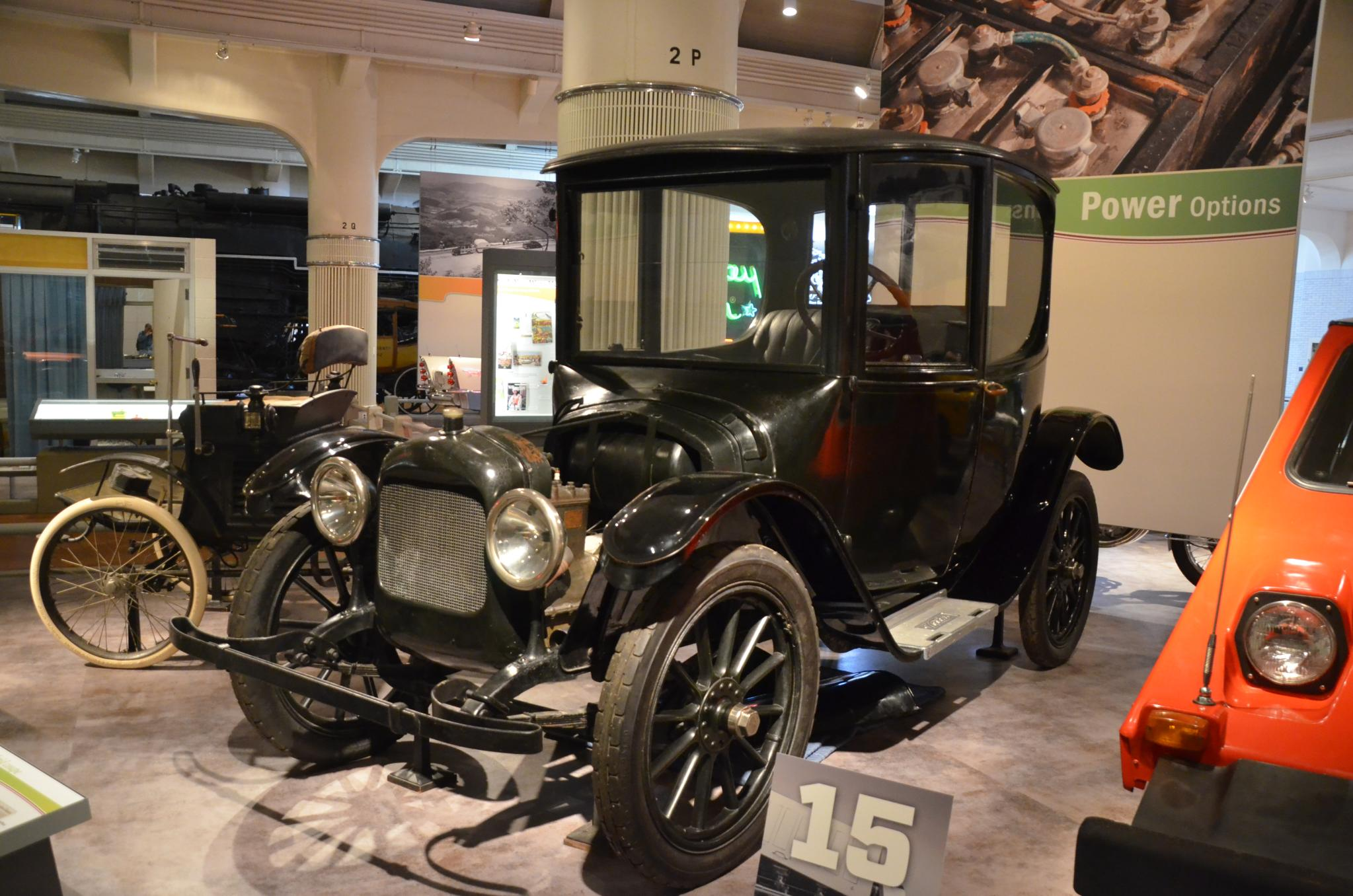 For about 6 weeks in January and February, the Henry Ford museum in Dearborn, Michigan opens the hoods on about 50 of it's iconic vehicles. Here is a photo of one of the vehicles on display.